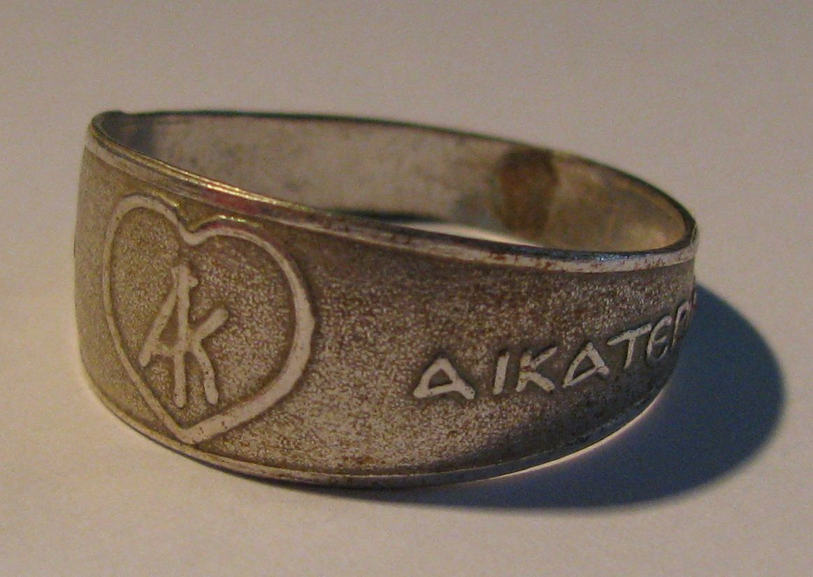 Ring from Saint Catherine's Monastery, Mount Sinai